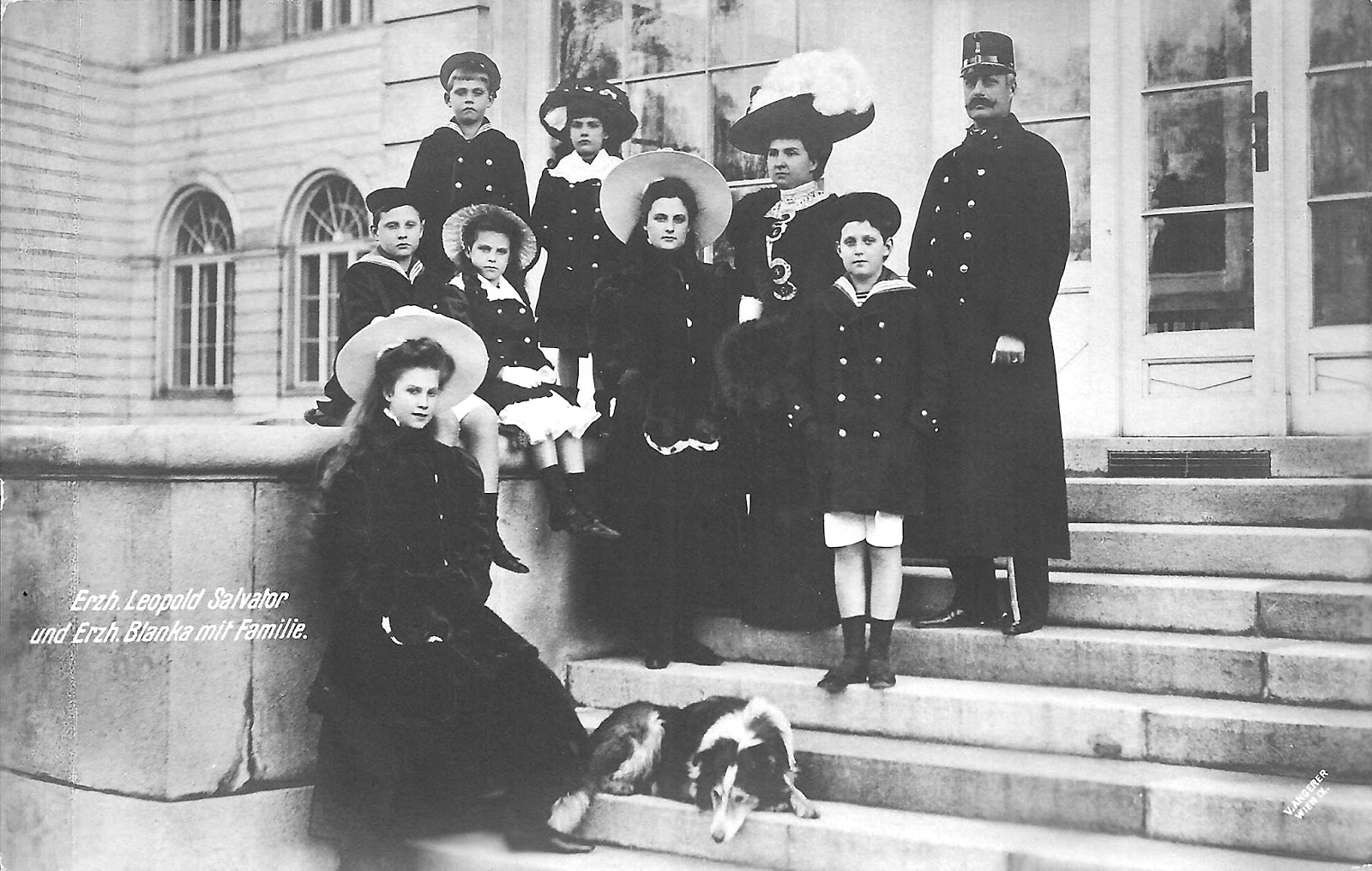 Leopold Salvatore Family.